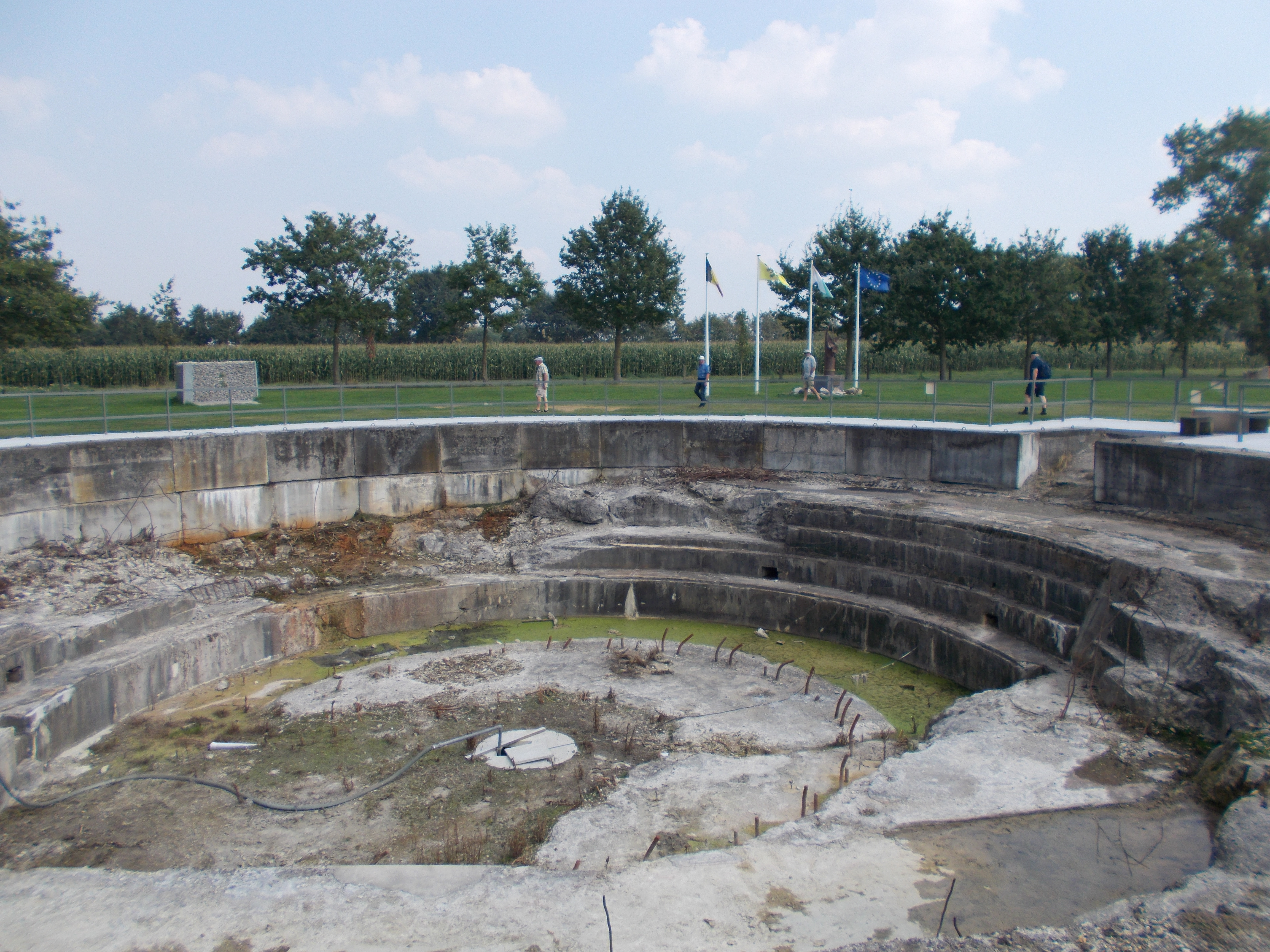 The remains of the artillerie platform of the former German cannon Lange Max in Koekelare, Belgium. The Lange Max Museum is a must-see place for those interested in World War 1 and is situated on the German side of the Western Front. The farmyard is the centre of this cultural location. A long lane takes you from the farmyard to the remains of the artillery platform of the former German cannon ‘Lange Max’. In a brand new contemporary museum, the visitor learns all about the largest cannon of its time that was designed to bombard Dunkirk.The museum focuses on the German occupation of Koekelare with a unique exhibition about the organisation behind the frontline and the production of army goods. It also featuers the little Bakehouse, which still contains traces of the German presence, and is now a multimedia room.